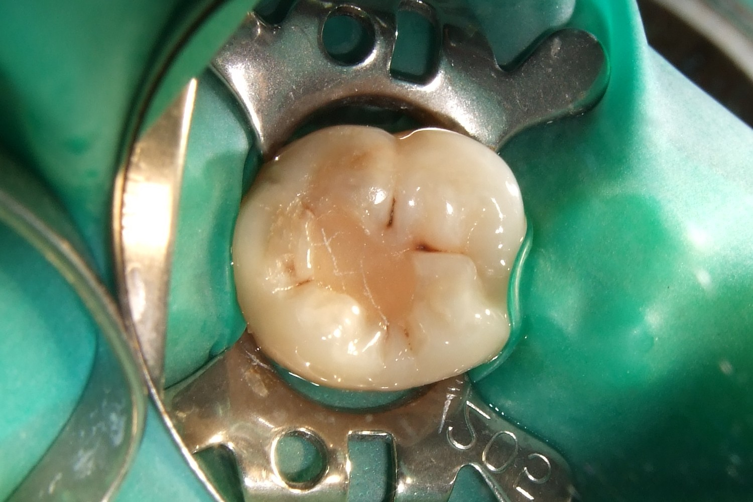 Lower first molar with old filling and secondary caries